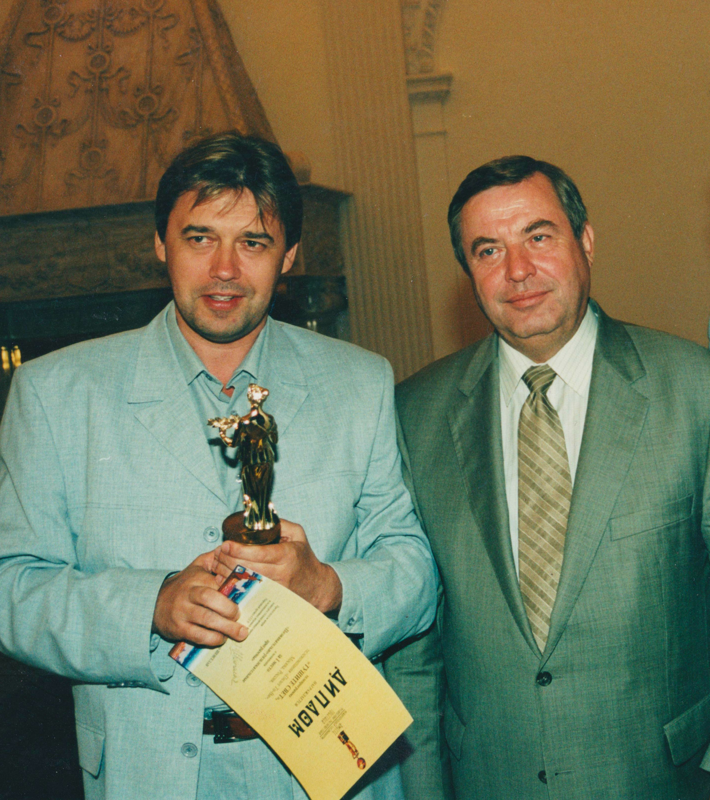 awarding a prize for a cantata Pesny o russkom slove